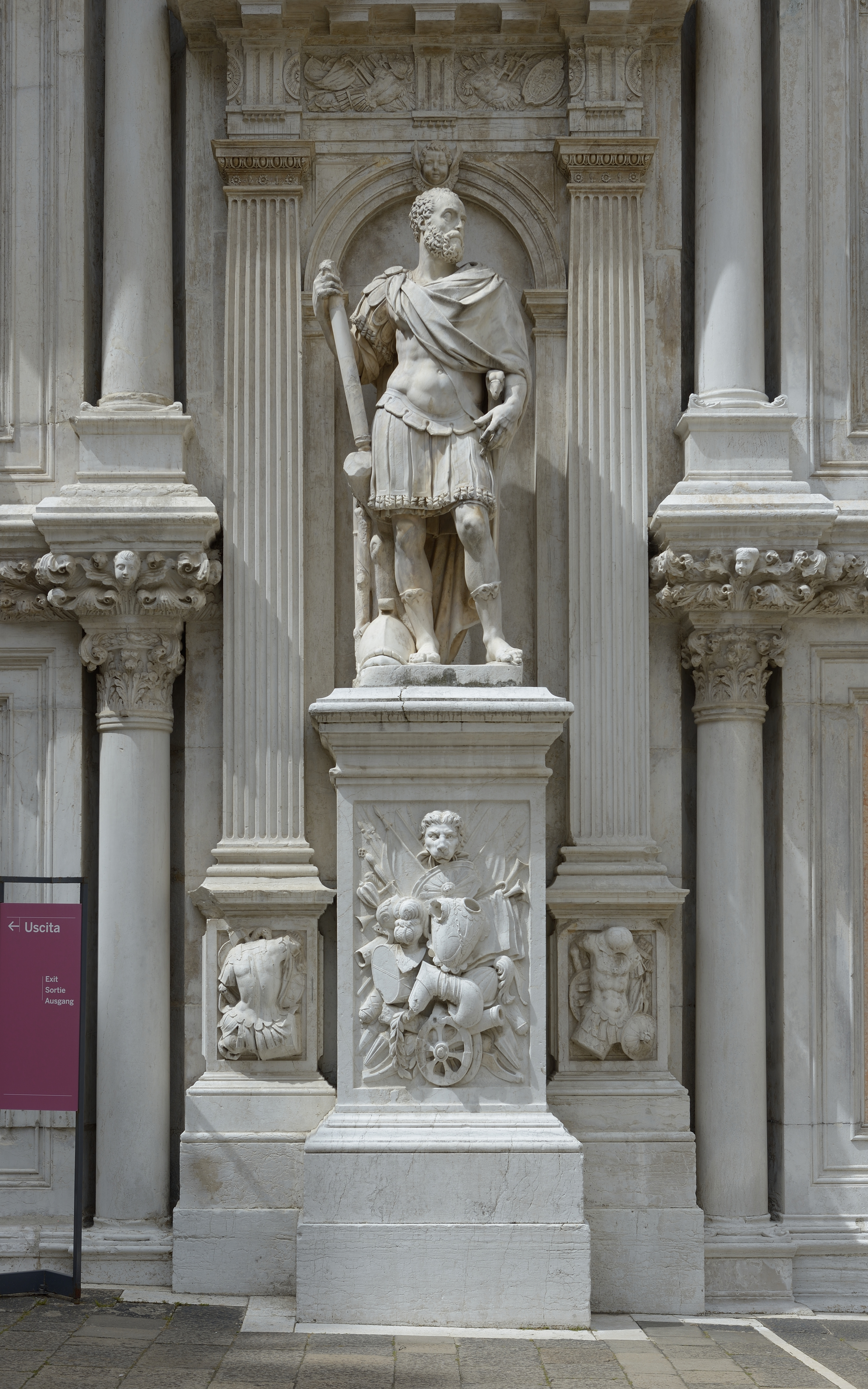 Statue of Francesco Maria I della Rovere by Giovanni Bandini 1587 on the "Facciata dell' Orologio" buildt between 1608 and 1615 by Bartolomeo Monopola from the Doge's Palace courtyard in Venice